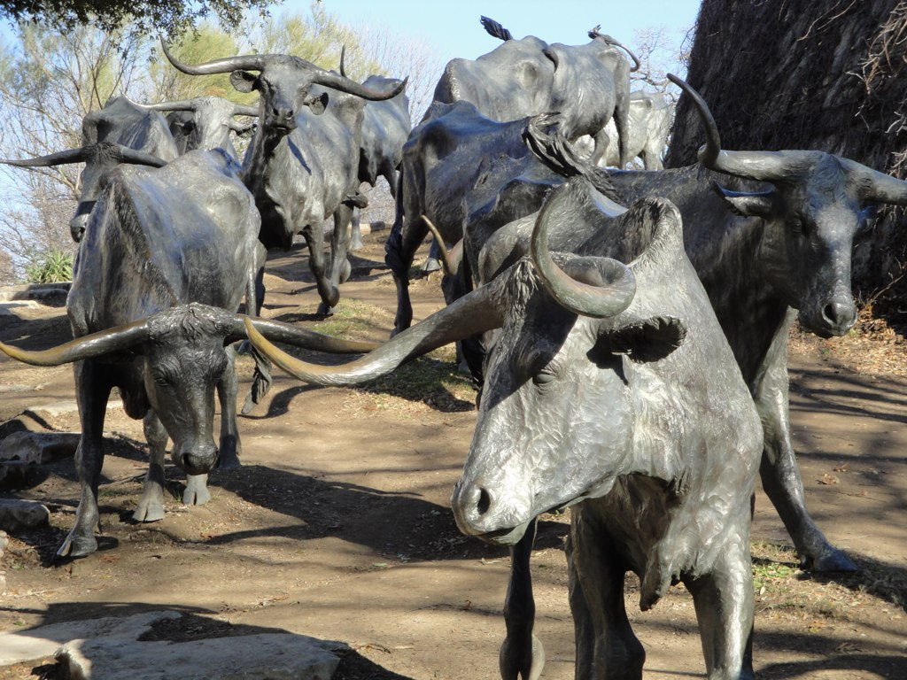 Cattle Drive sculpture in Pioneer Plaza located in downtown Dallas, Texas